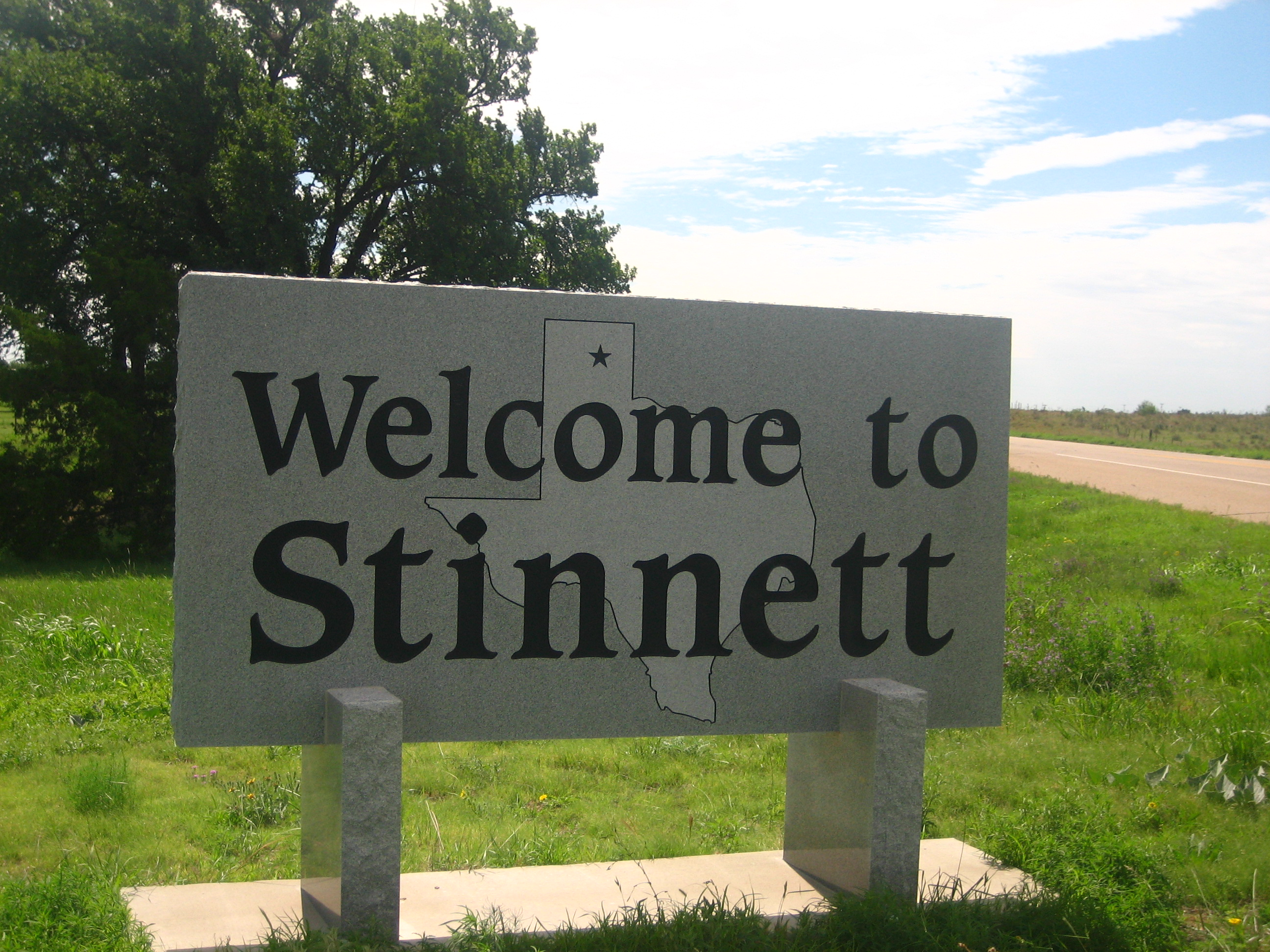 I took this photo on July 15, 2008.Billy Hathorn (talk) 20:50, 22 July 2008 (UTC)